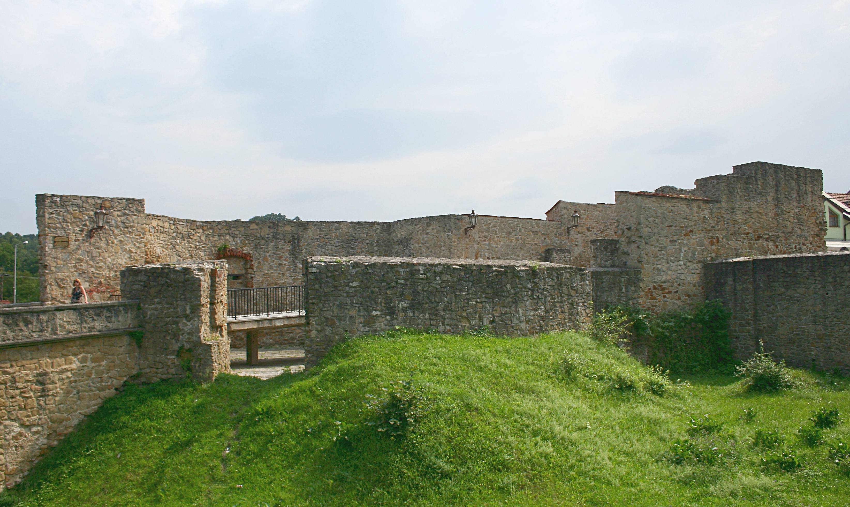 castel's ruins in Bardejov, Slovakia